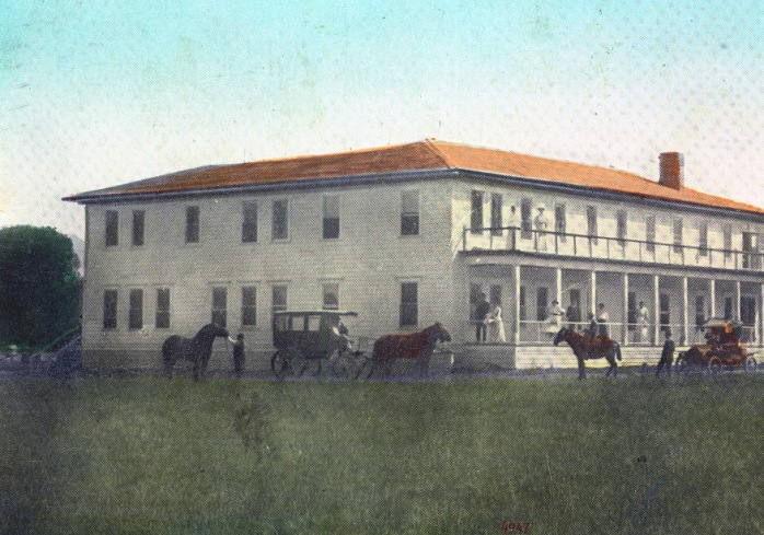 Original Collection: Gerald W. Williams Collection Item Number: WilliamsG:NEO Radium Sanitarium Restrictions: Please contact the OSU Archives for permissions forms or information on how to cite our collections. Click here to view our digital collections. You can find this image by searching for the item number. Click here to view Oregon State University's other digital collections. We're happy for you to share this digital image within the spirit of The Commons; however, certain restrictions on high quality reproductions of the original physical version may apply. To read more about what “no known restrictions” means, please visit the OSU Archives website.